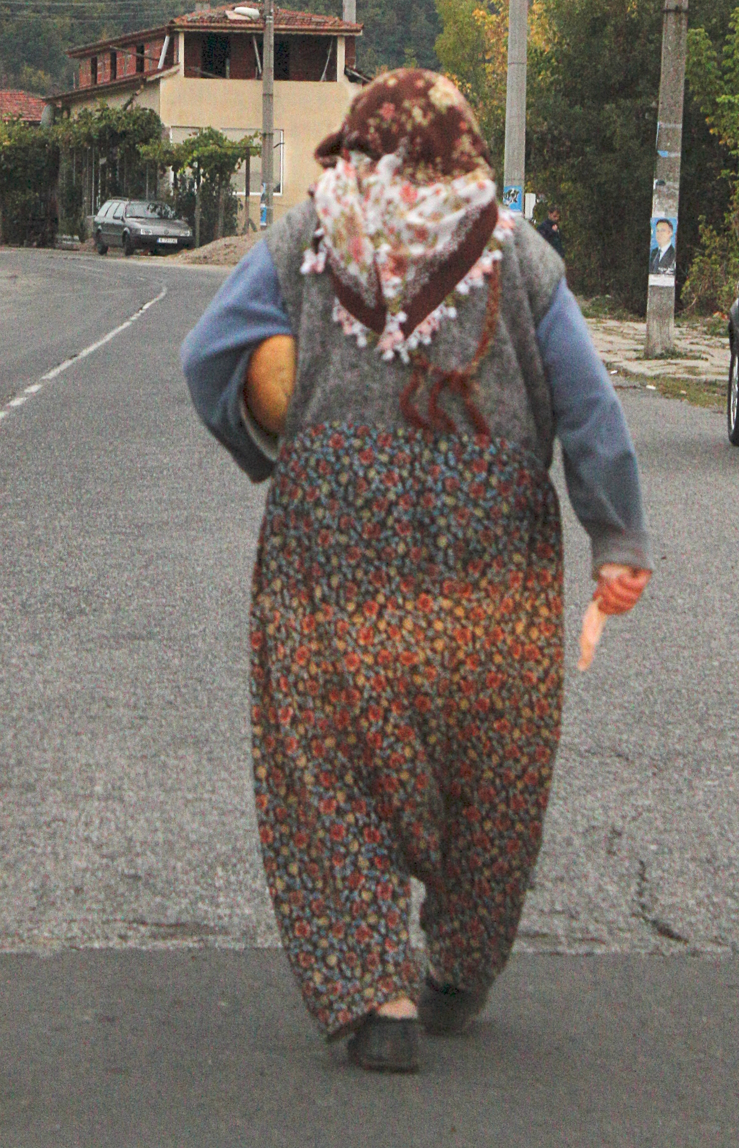 Shalwari, Kardzhali District, Bulgaria